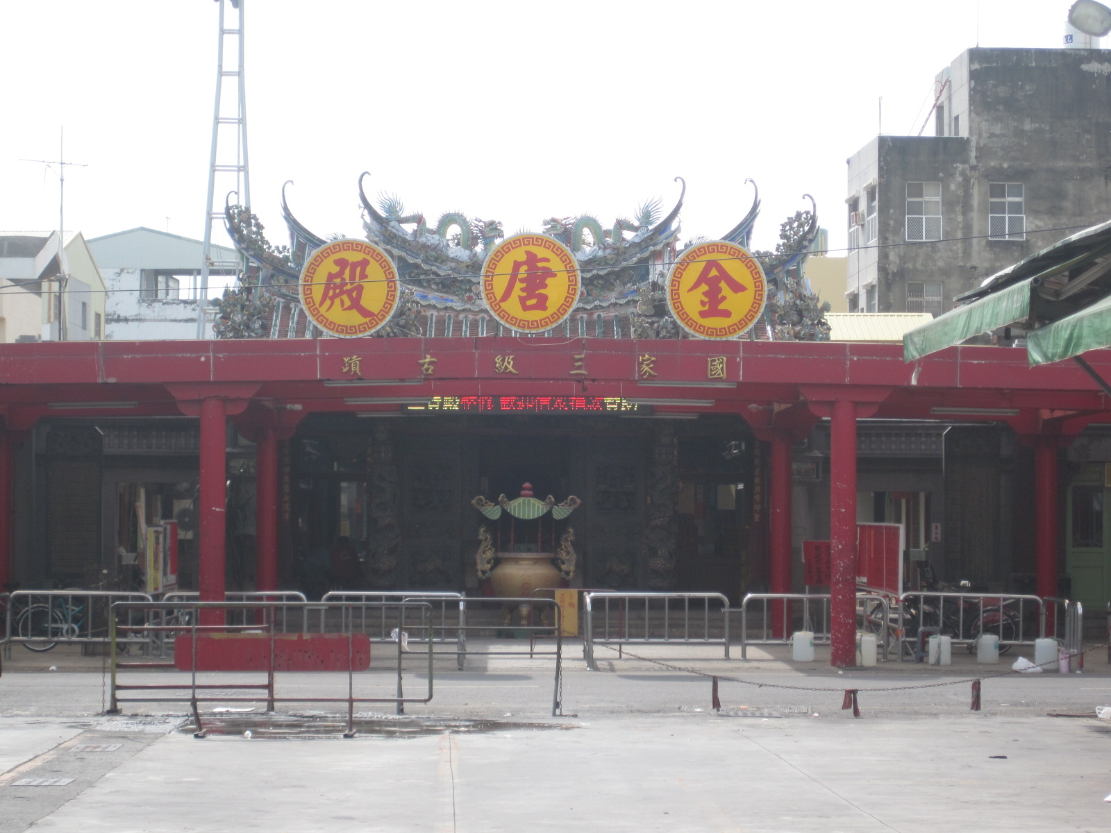 Jiali Jintang Temple